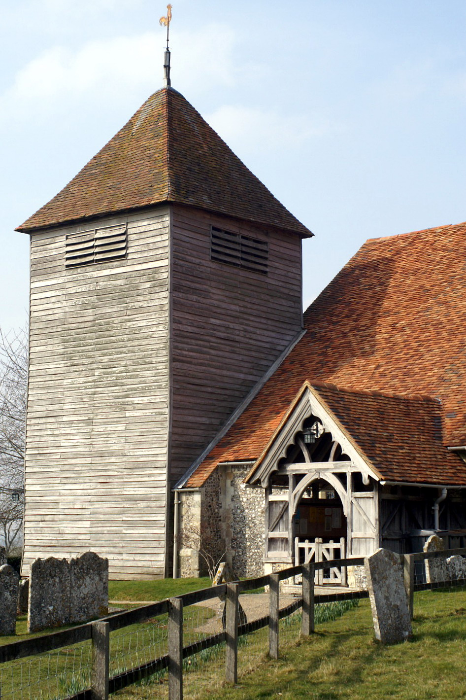 Southwest tower of and south porch of St Mary's Church, Michelmersh, Hampshire